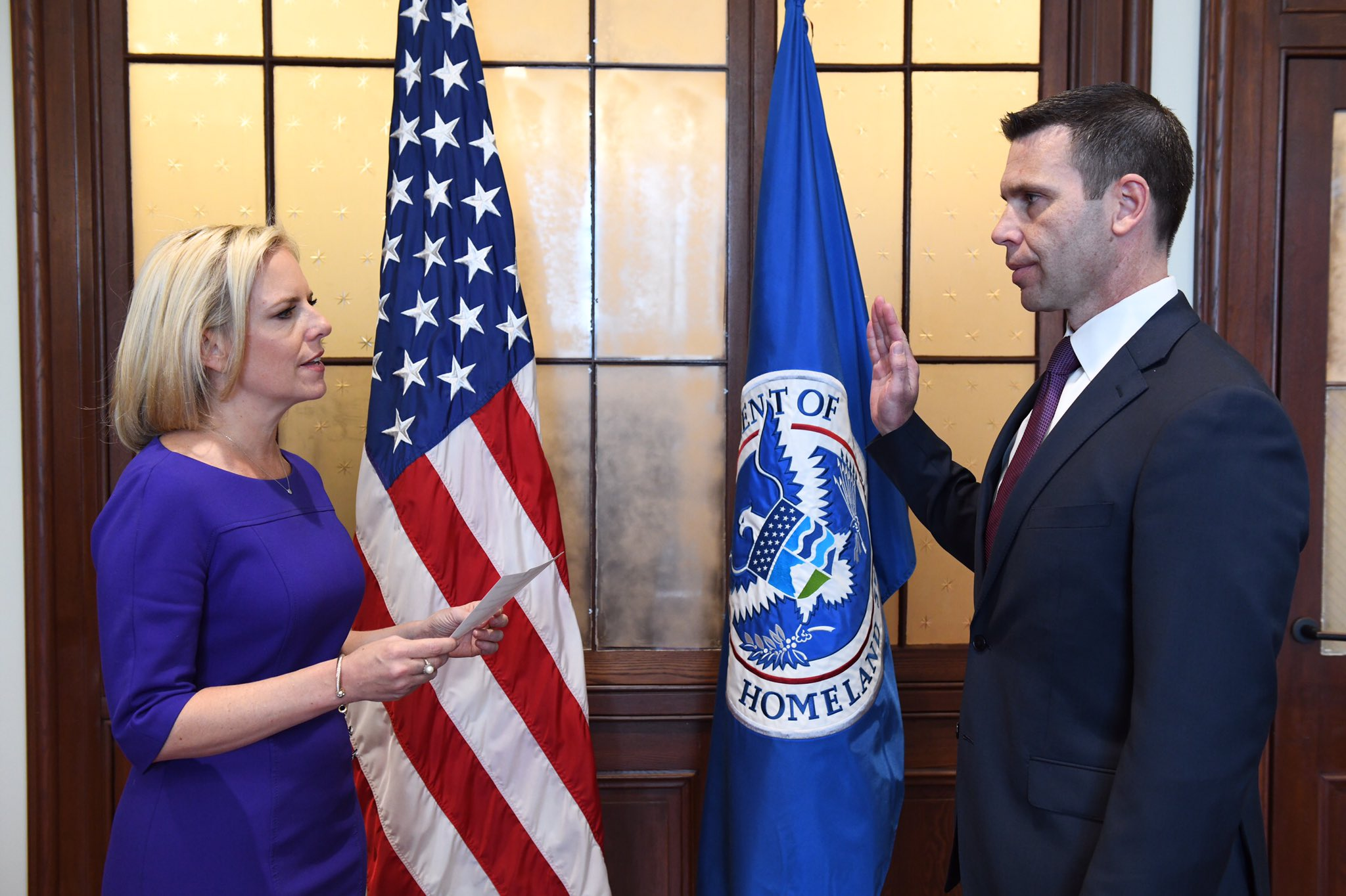 Today, CBP Commissioner Kevin McAleenan was sworn-in to lead DHS as the Acting Secretary. The ceremony took place at the new DHS Headquarters at St. Elizabeth’s.